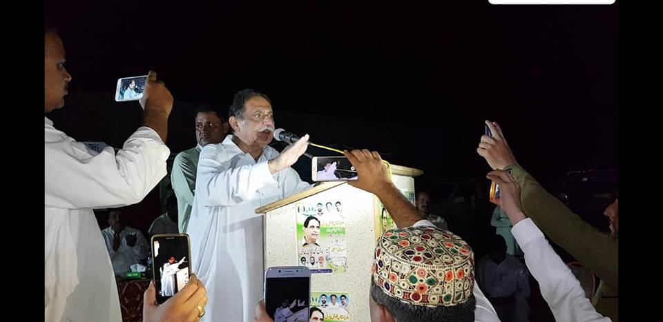 Jan Muhammad jamali during works for elections, He is addressing in public gathering